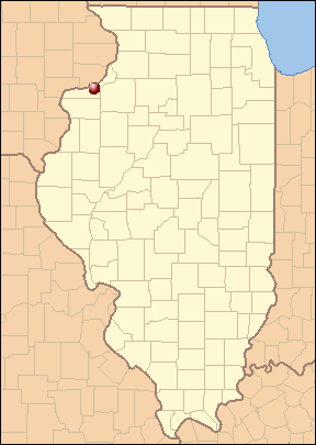 Locator Map of Illinois, United States